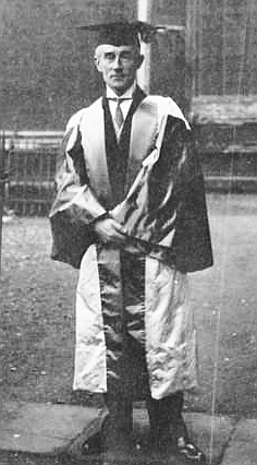 French composer Maurice Ravel (1875-1937) as Doctor Honoris Causa of the University of Oxford in 1928.